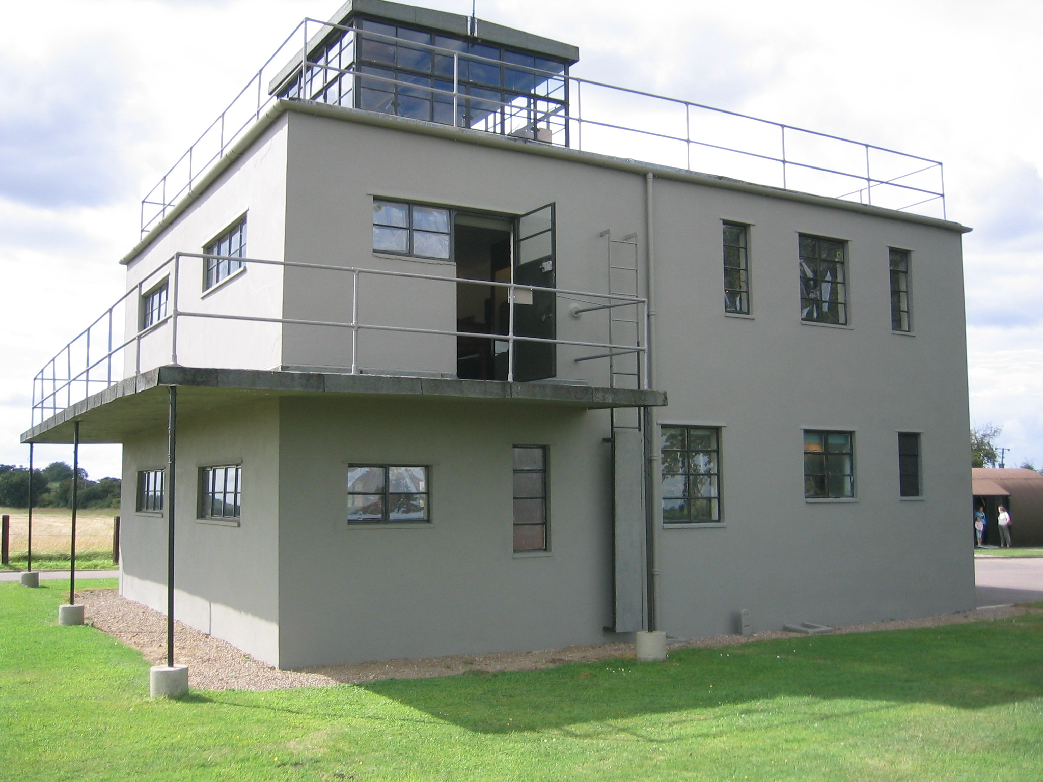 The control tower at the former RAF and USAAF base RAF Thorpe Abbotts, which now forms part the 100th Bomb Group Memorial Museum. Photograph taken 19:11, 15 August 2007 (UTC).